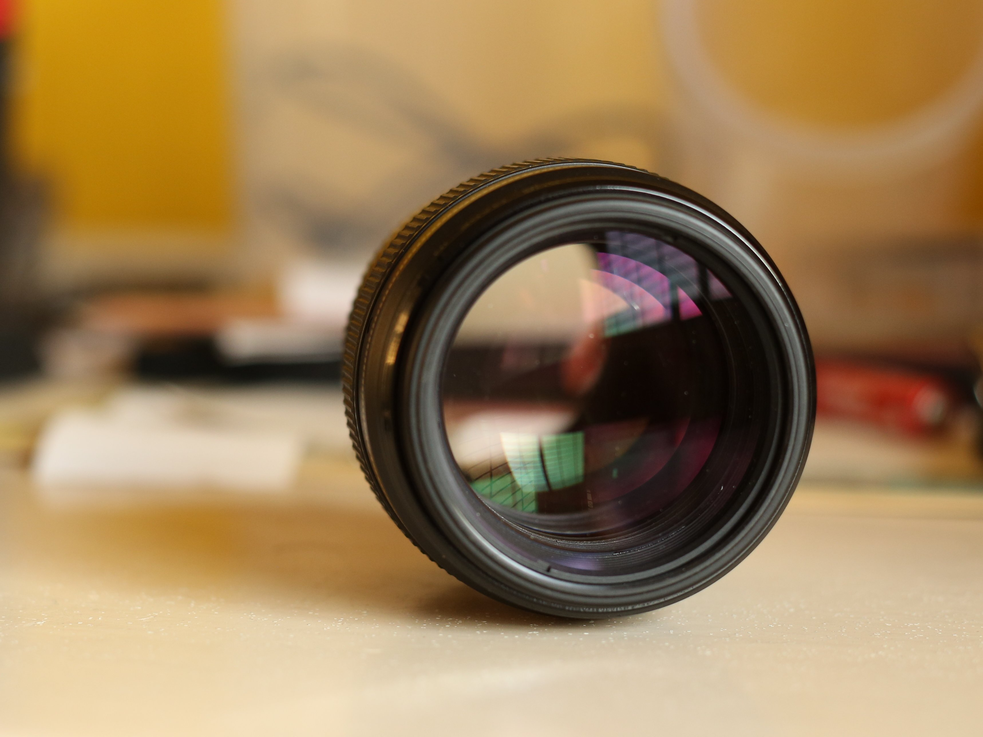 A view of the Canon EF 100mm f/2.0 lens, lying on its side and open at both ends. To be used as illustration for the Wikipedia page on this lens family.